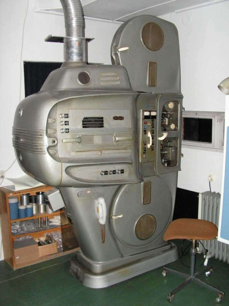 Versatile movie projector "Meopton UM 70/35" from czechoslovak producer MEOPTA Přerov (year 1969)